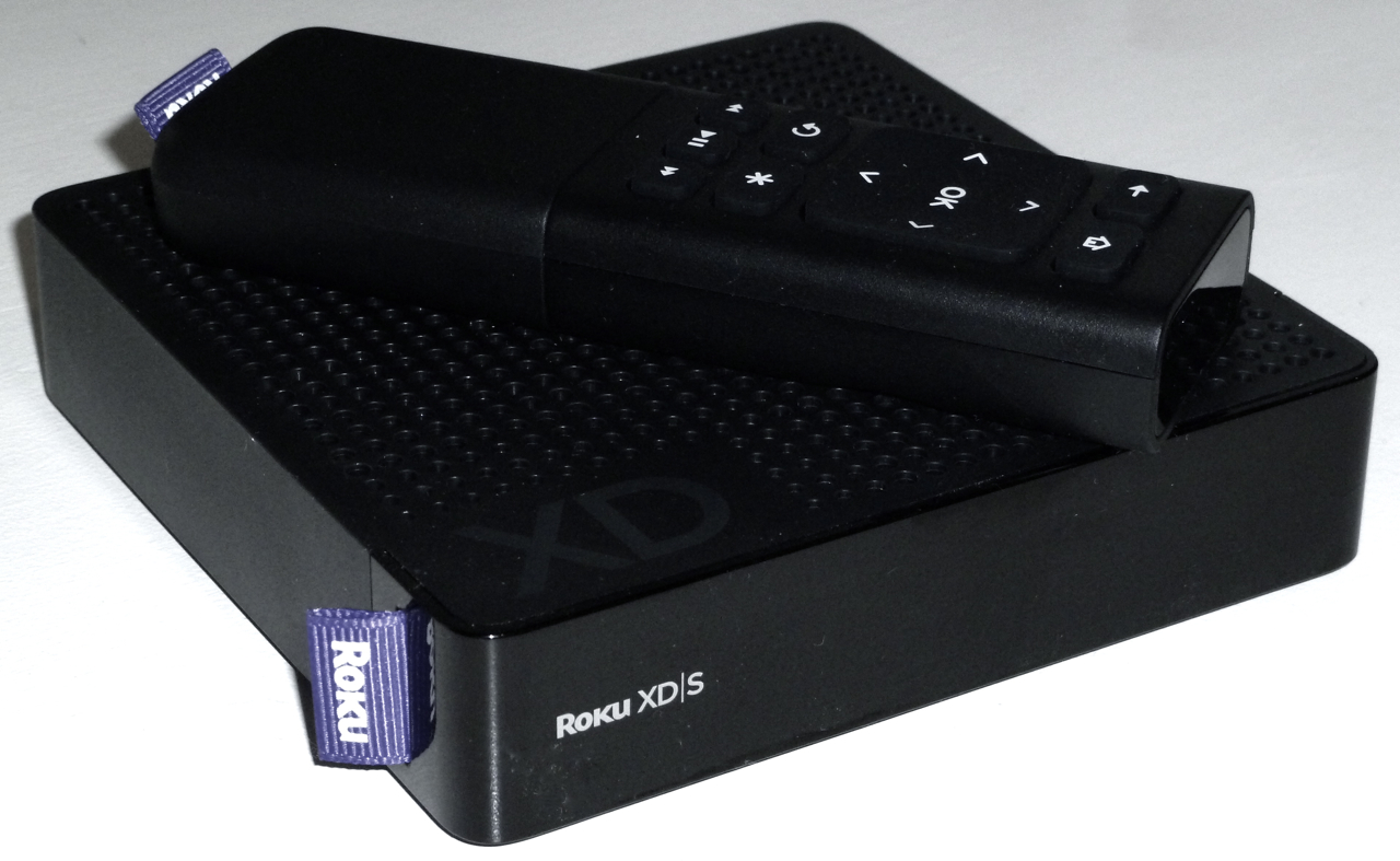 Photograph of Roku XDS player with remote.